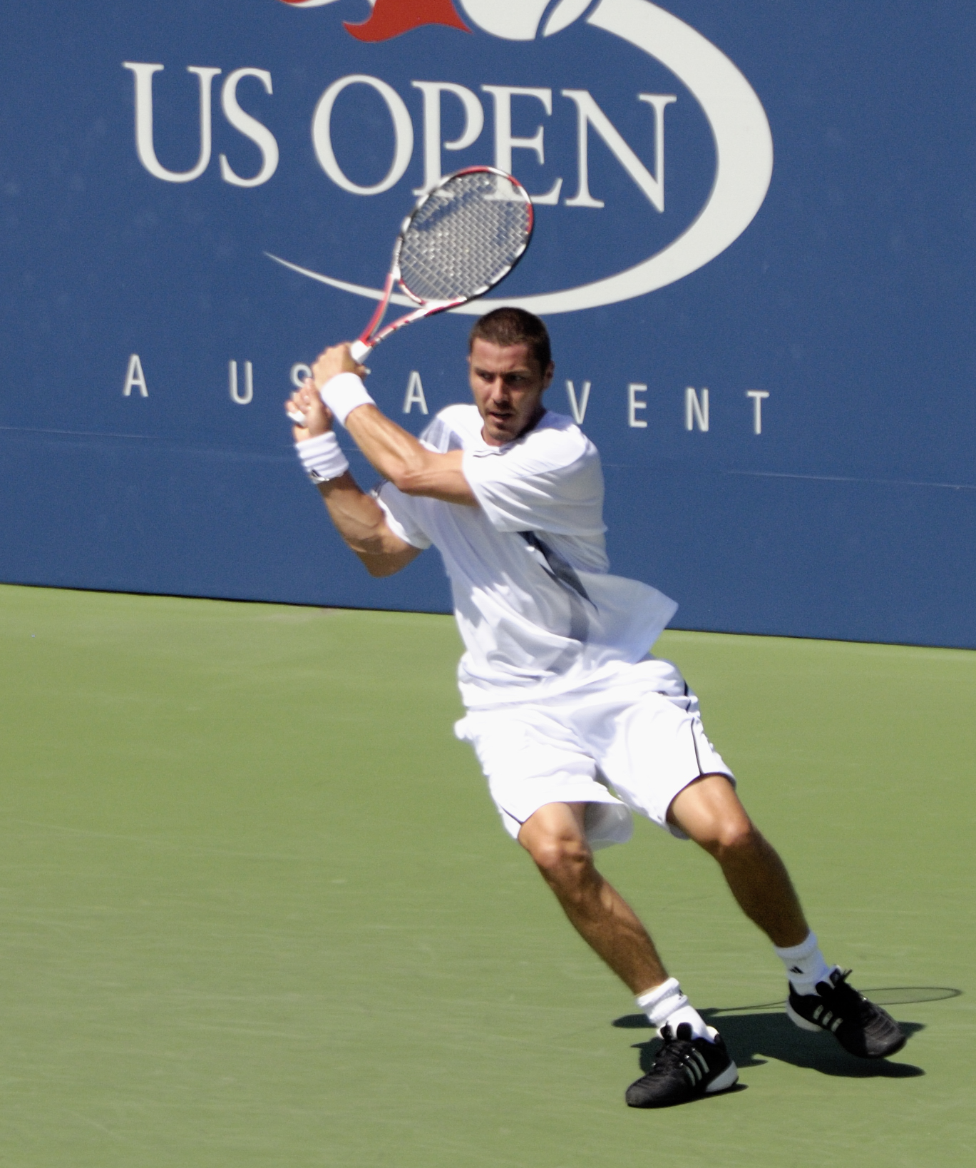 Marat Safin at the 2009 US Open